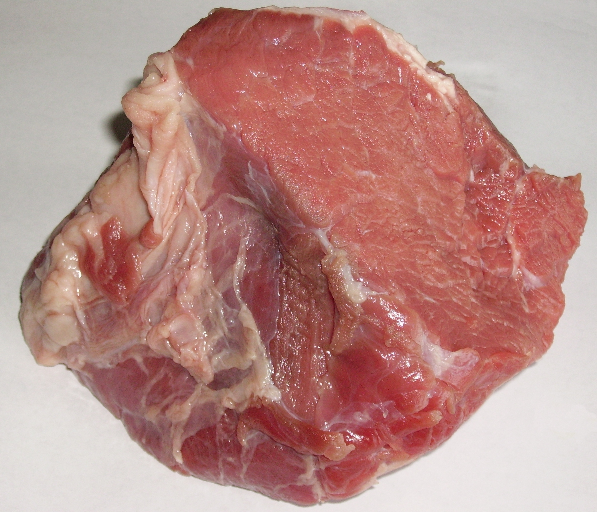 Beef